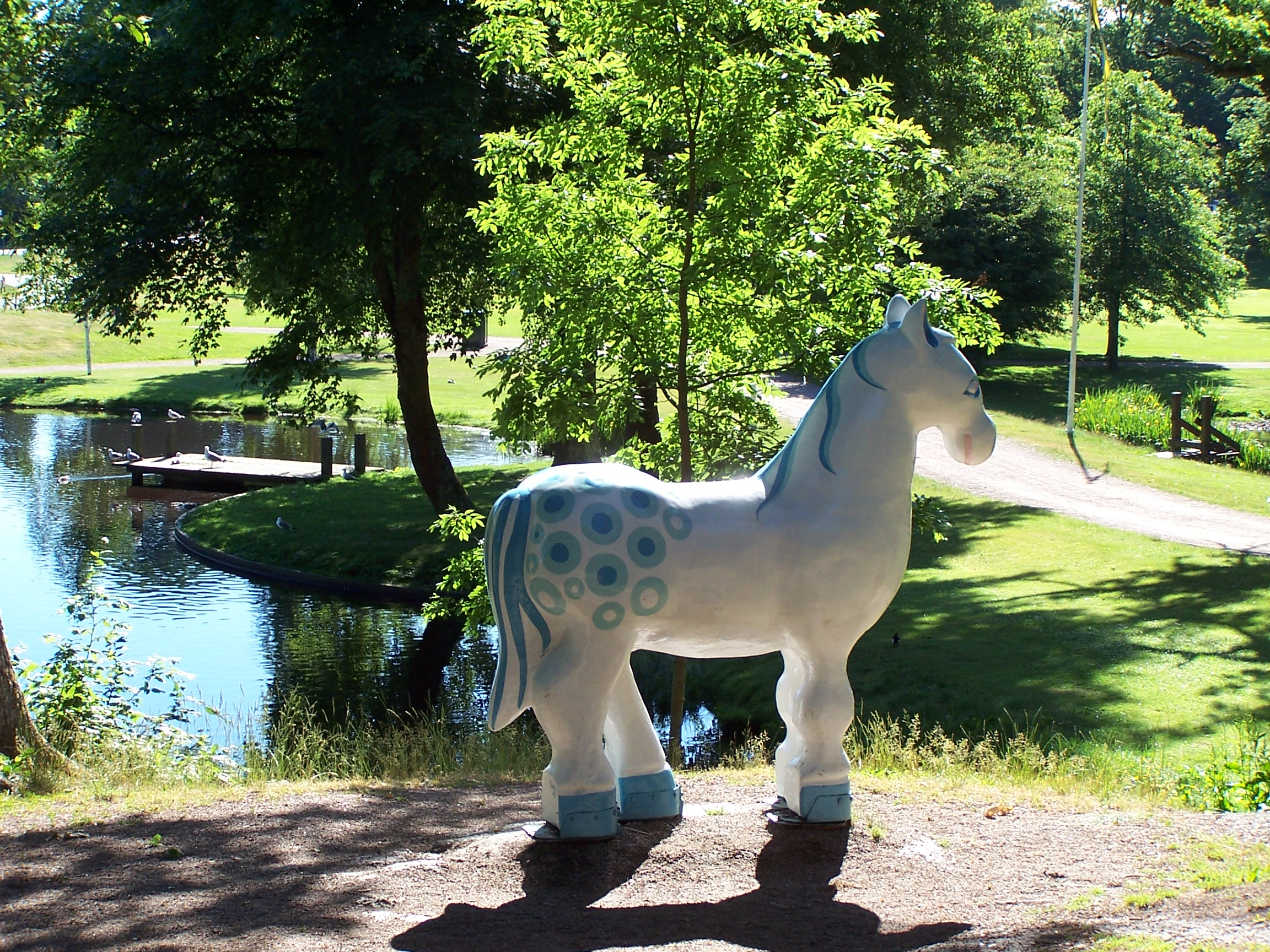 Bäckahästen ("The streamhorse")